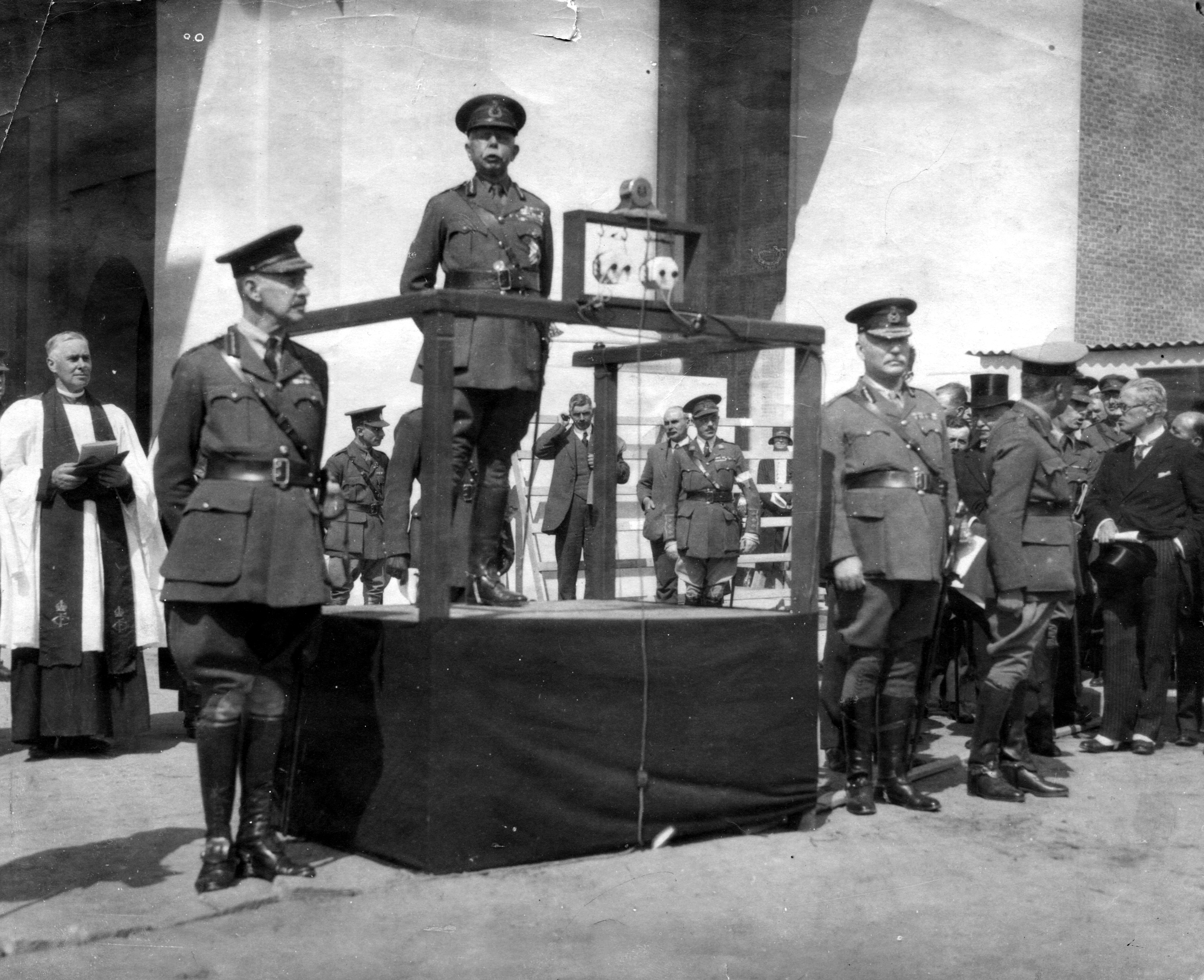 Item is a photograph from an album of World War One-related photographs in the William Okell Holden Dodds fonds. Brigadier General Dodds joined the Canadian Expeditionary Force in 1914 and was commanding officer of the 5th Canadian Division Artillery and served in France from 1917-1918.